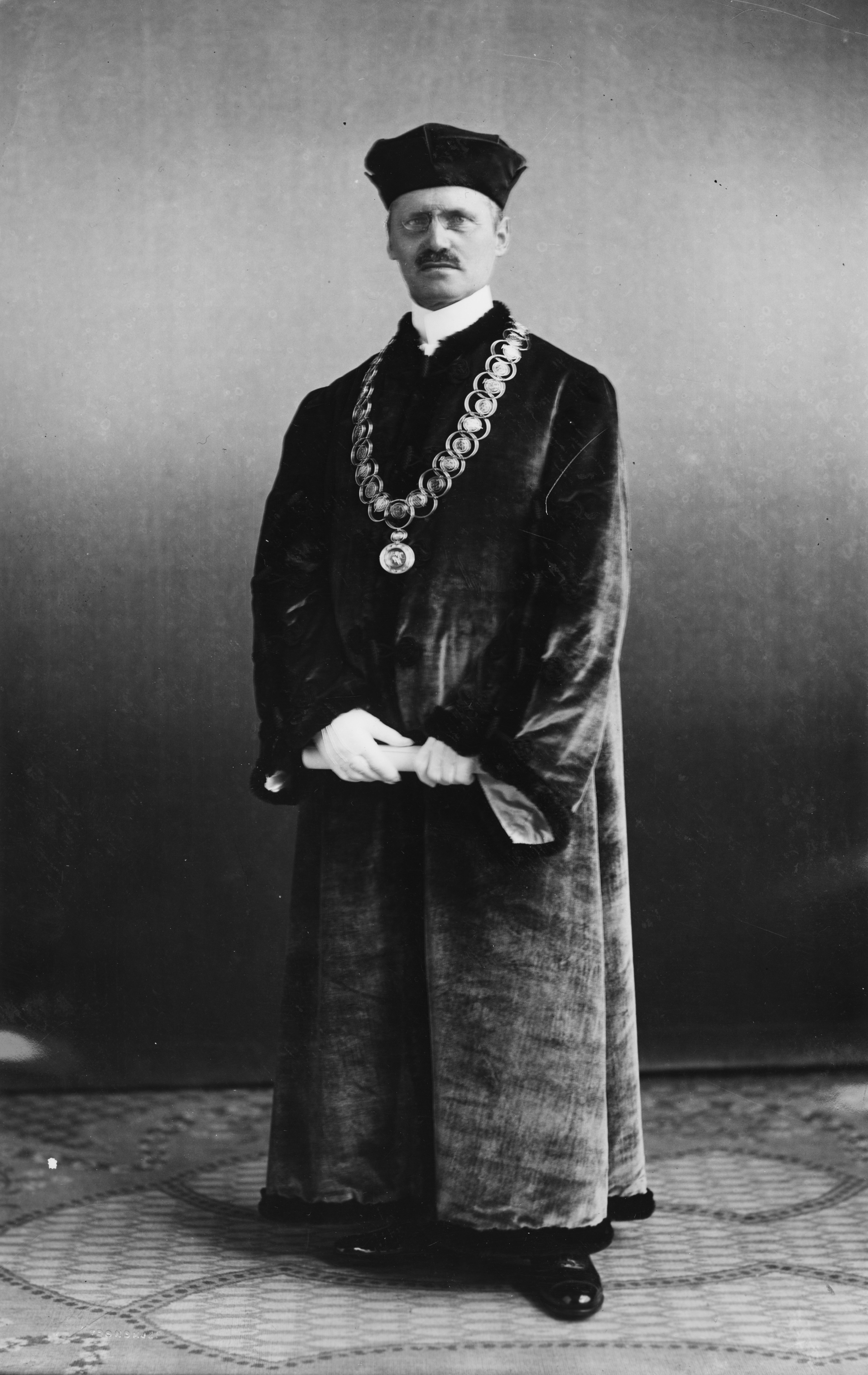 Claus Nissen Riiber was the rector of the Norwegian Institute of Technology (NTH) 1923–1925